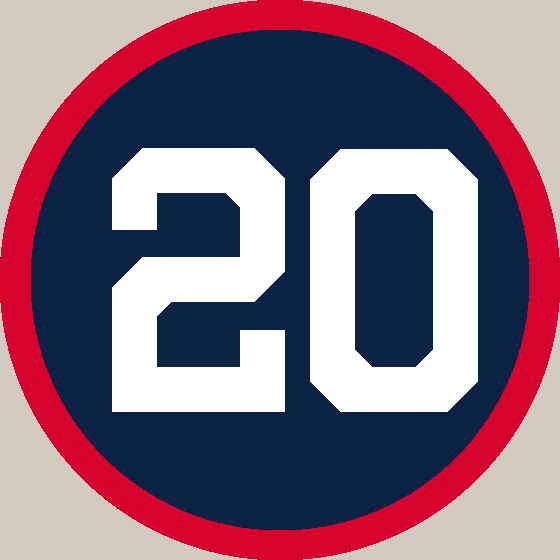 The number "20", retired for Frank Robinson by the Cleveland Indians.